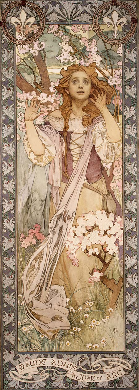 Maude Adams as Joan of Arc.